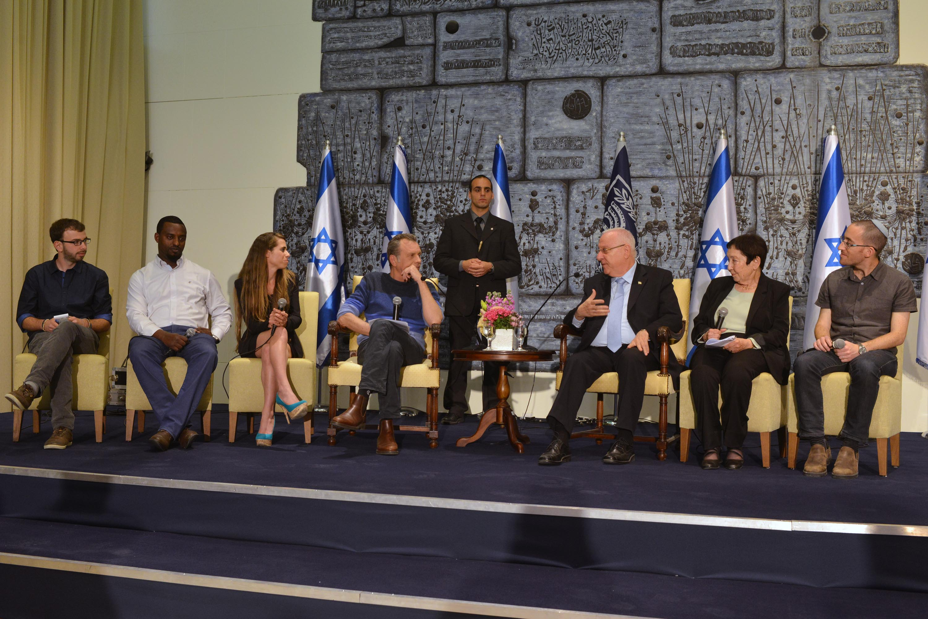 נשיא המדינה ראובן רובי ריבלין מארח במשכן הנשיא אזרחים למפגש לקראת הבחירות לאחר שהצהירו שאין בכוונתם להצביעPhoto by Kobi Gideon / GPO